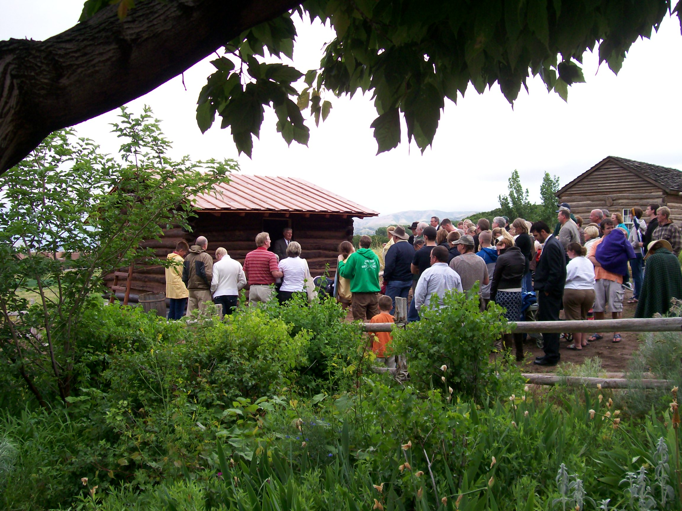 Dedication ceremonies of the Emery County Cabin at This Is The Place Heritage Park.